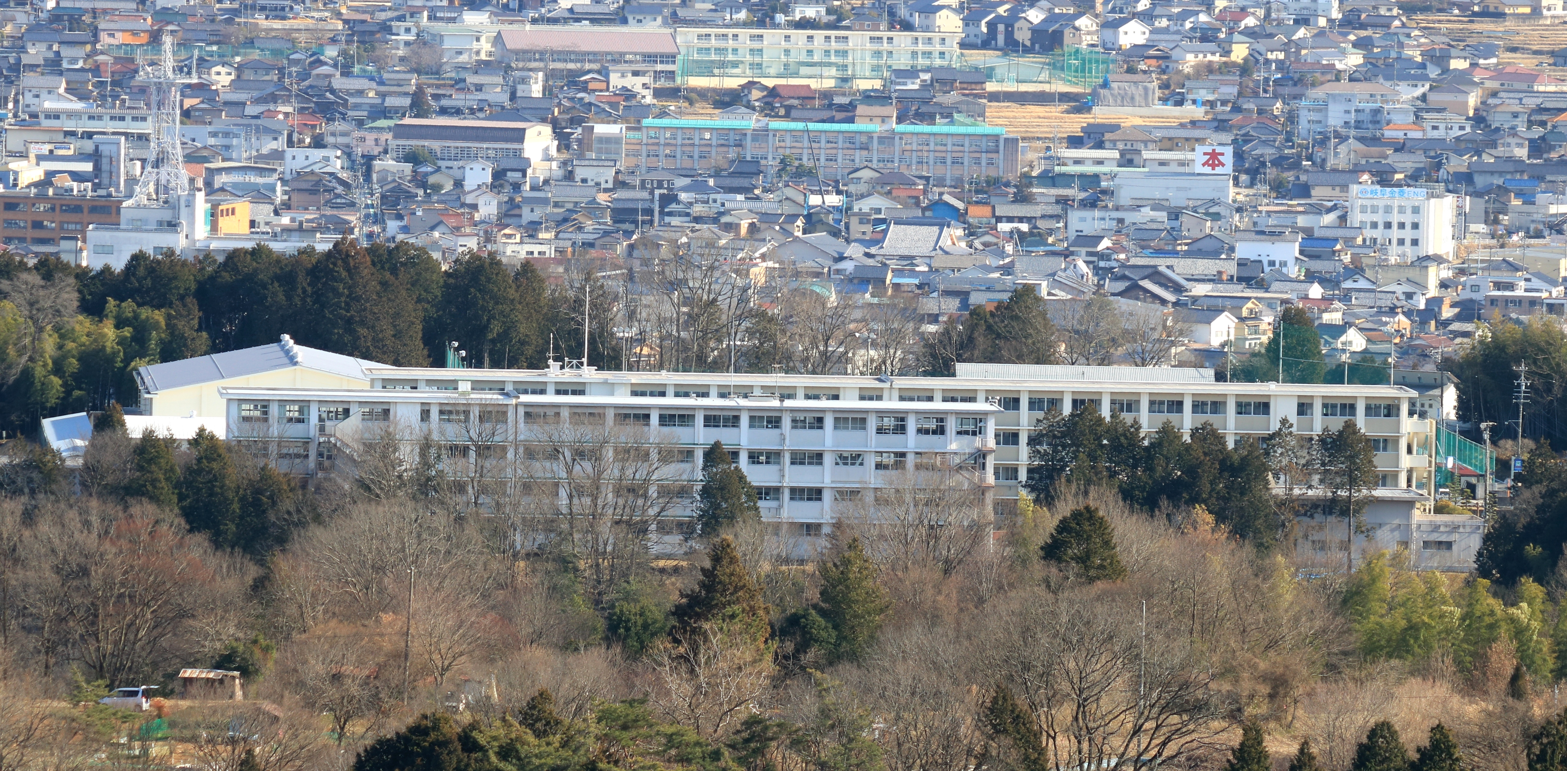 Natatsu Commercial High School seen from Naegi Castle in Komaba, Nakatsugawa, Gigu Prefecture, Japan.